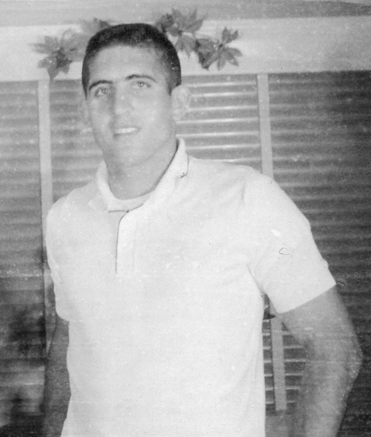 Cropped image of George Mira.